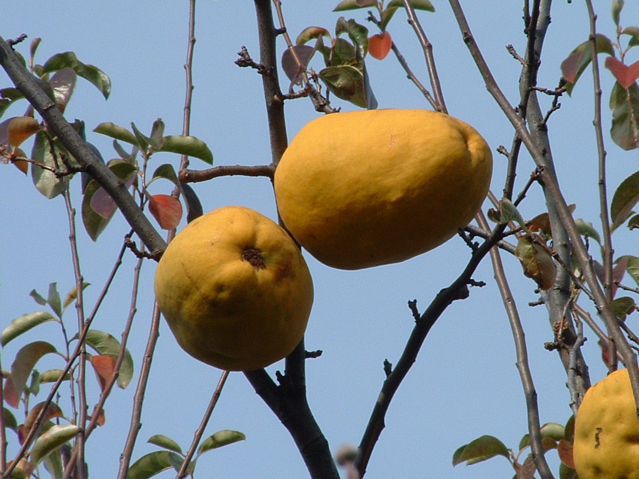 Fruits of a Japanese karin tree